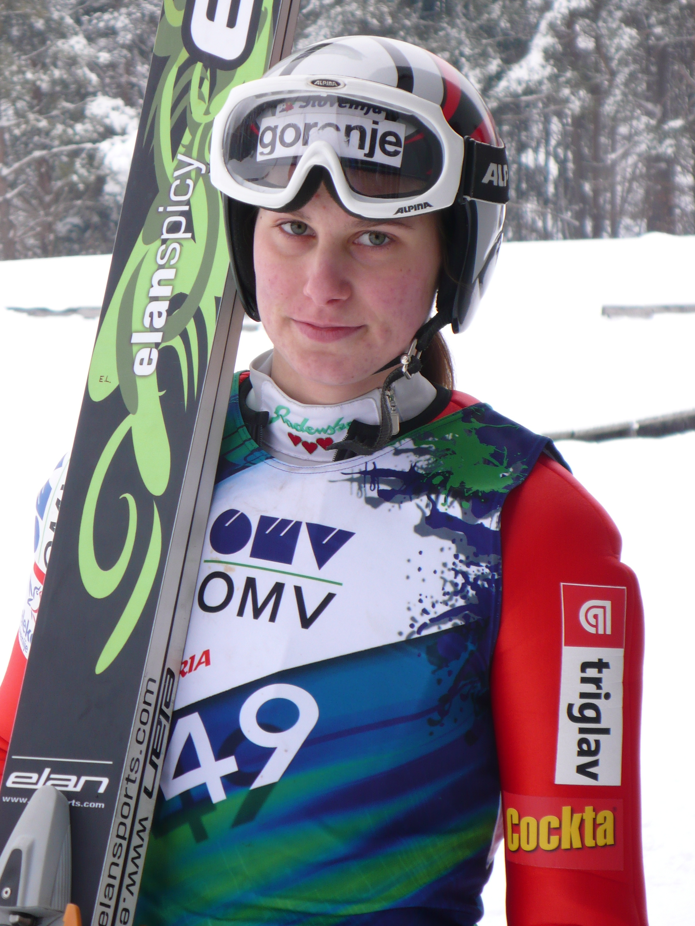 Eva Logar, at the Ski jumping Continental Cup in Villach on the 2010-02-12.